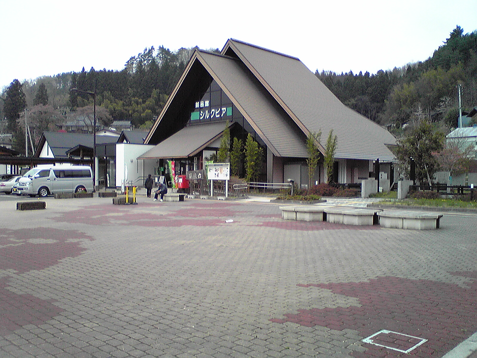 Local products store "Silkpia" at Michinoeki Kawamata in Kawamata Town, Fukushima Prefecture, Japan